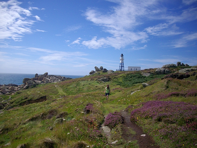 Peninnis Head lighthouse Viewed from the coastal path in its beautiful setting - when the weather is good!